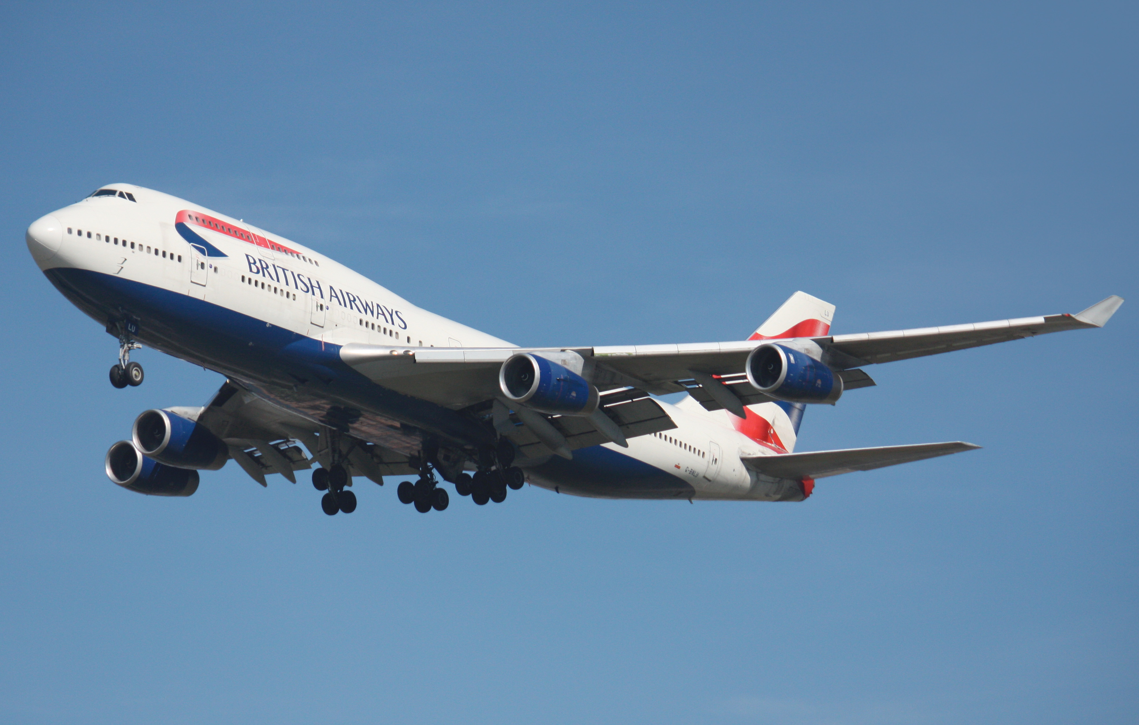 A British Airways Boeing 747-438 landing at Vancouver International Airport